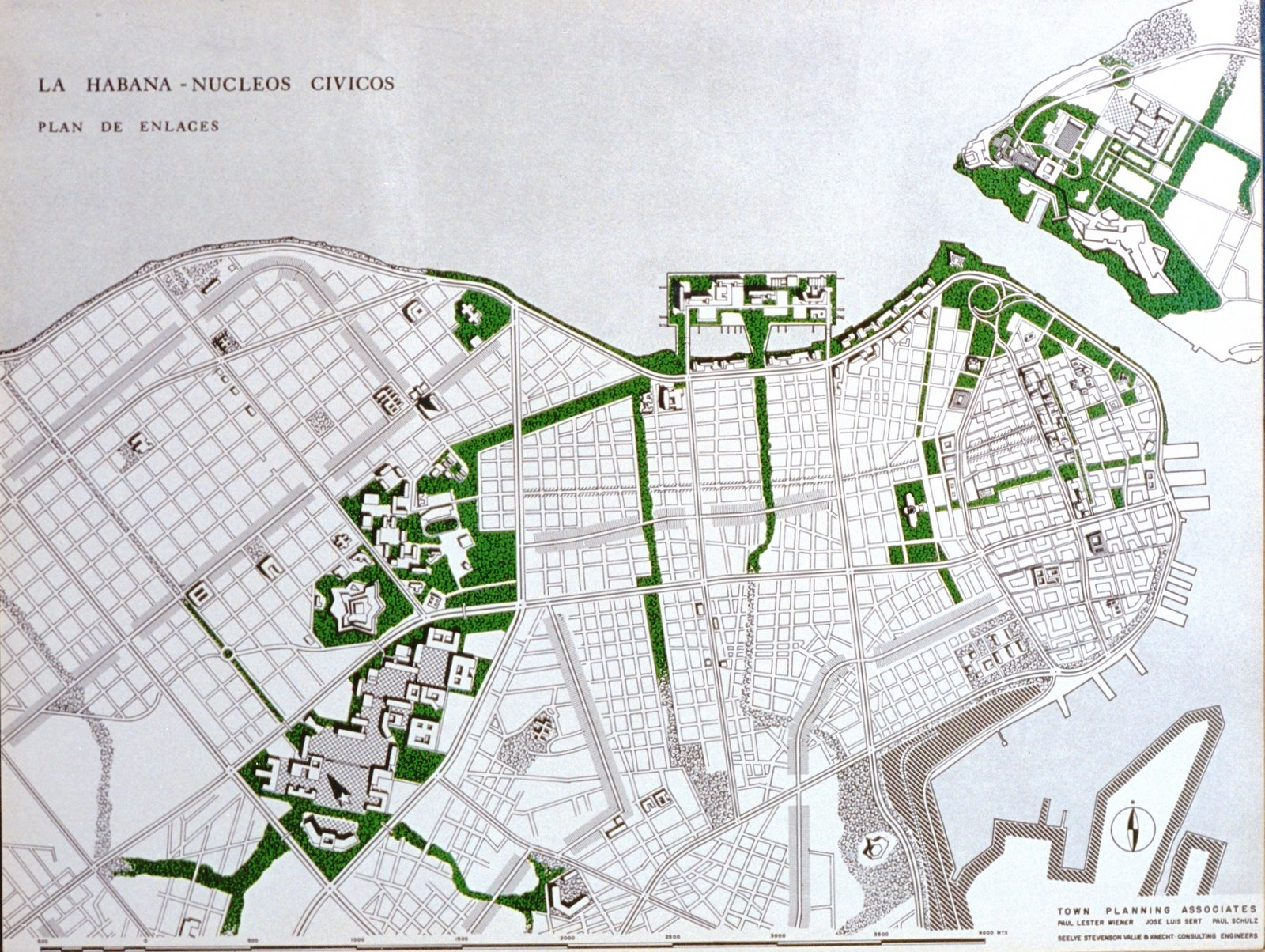 plan piloto de la habana.1 1956